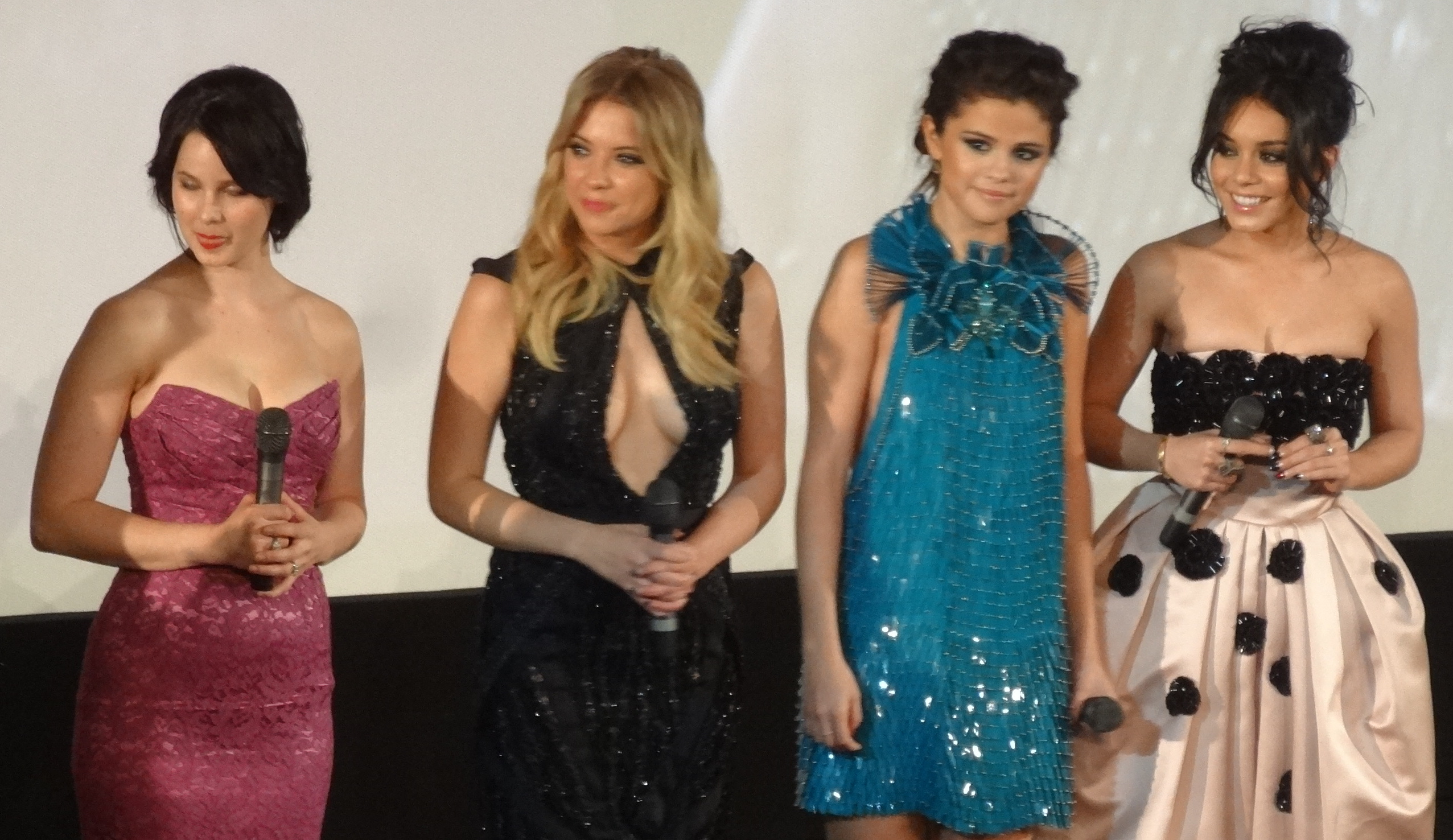 Spring Breakers Cast: Vanessa Hudgens, Selena Gomez, Ashley Benson, Rachel Korine at the AVP Paris Le Grand Rex (February 2013).